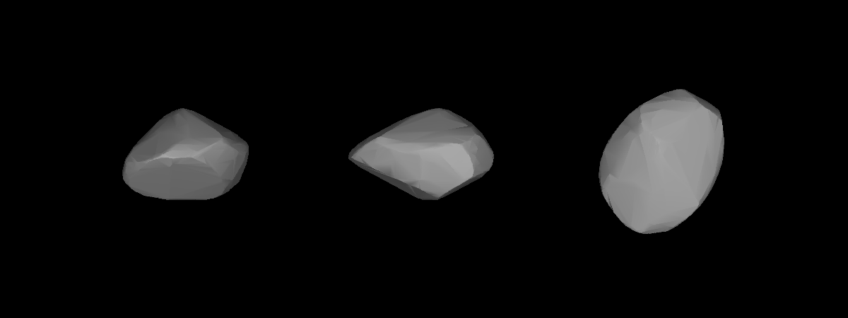 A three-dimensional model of 73 Klytia that was computed using light curve inversion techniques.